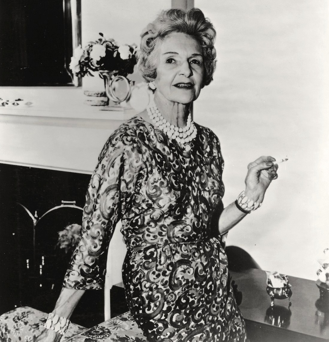 Cathleen Nesbitt in the TV series The Farmer's Daughter - publicity still (modified and cropped : see sources)